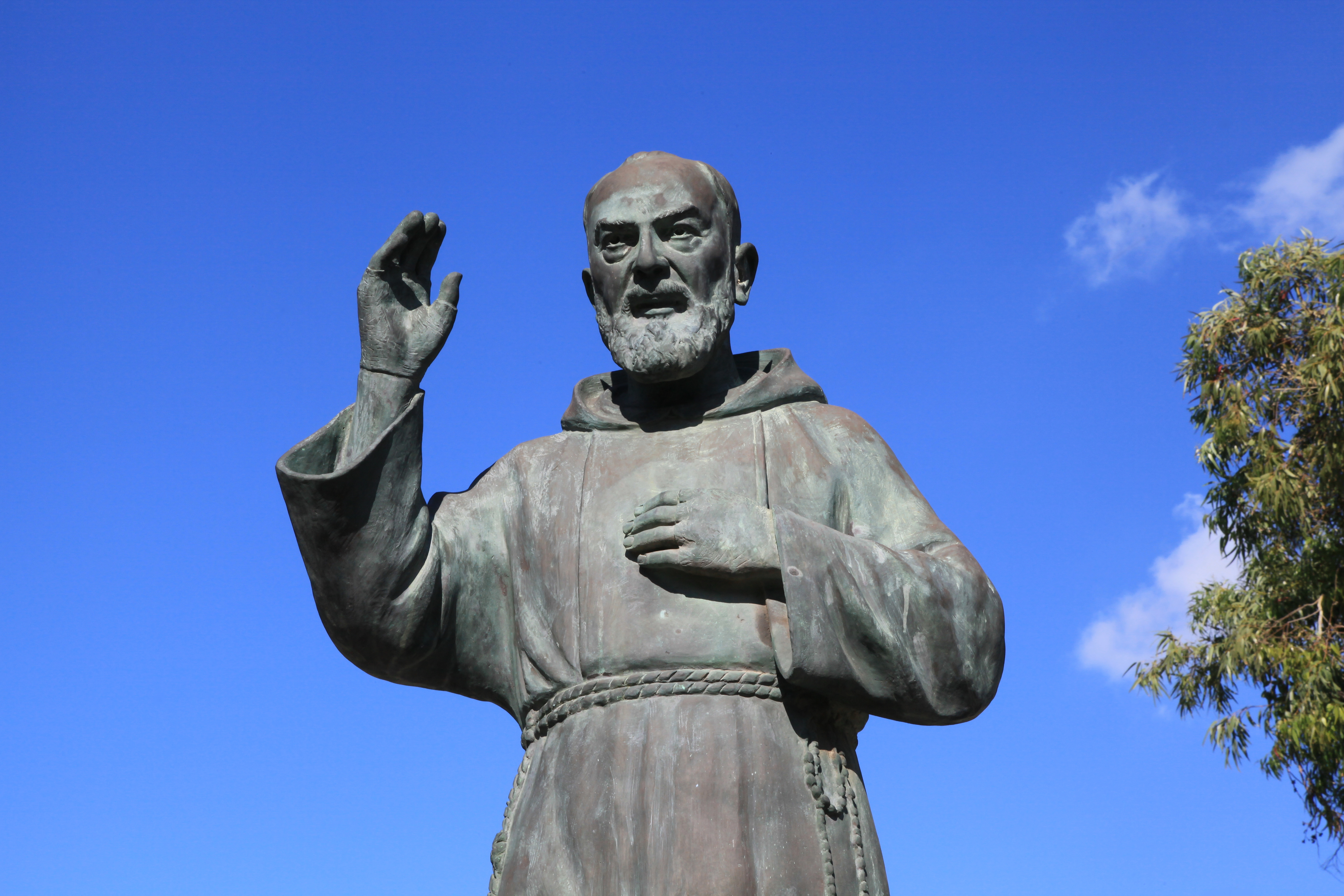 Memorial to Saint Pio of Pietrelcina at Misraħ Sant' Antnin, Triq Kordin in Paola, Malta